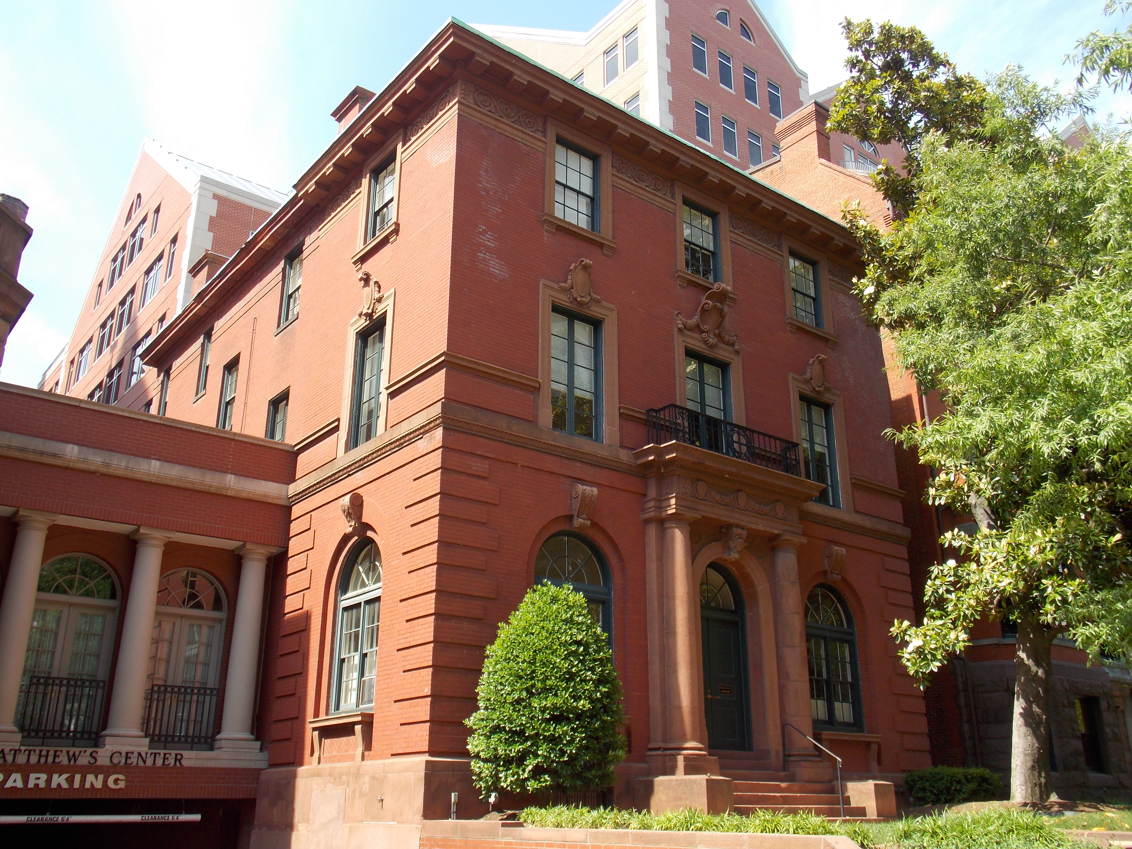 The rectory at the Cathedral of St. Matthew the Apostle in Washington, D.C. Together with the cathedral it is listed on the National Register of Historic Places.